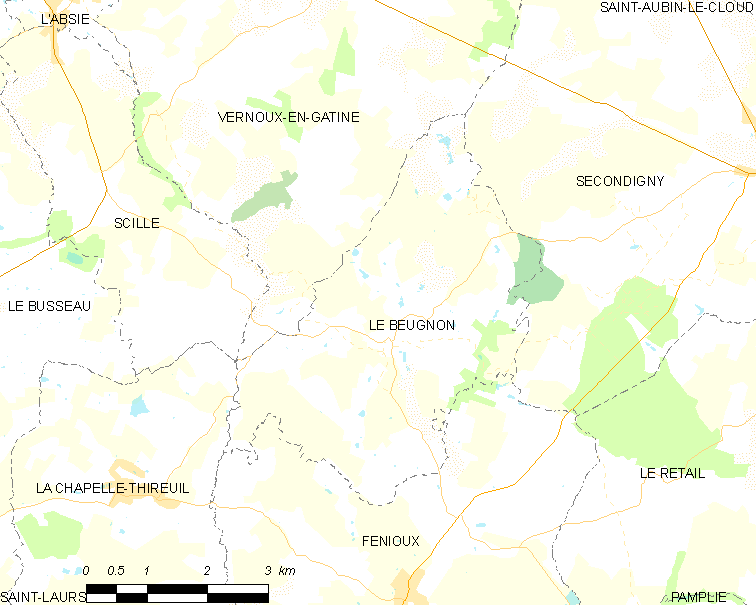 Map of French municipality Le Beugnon